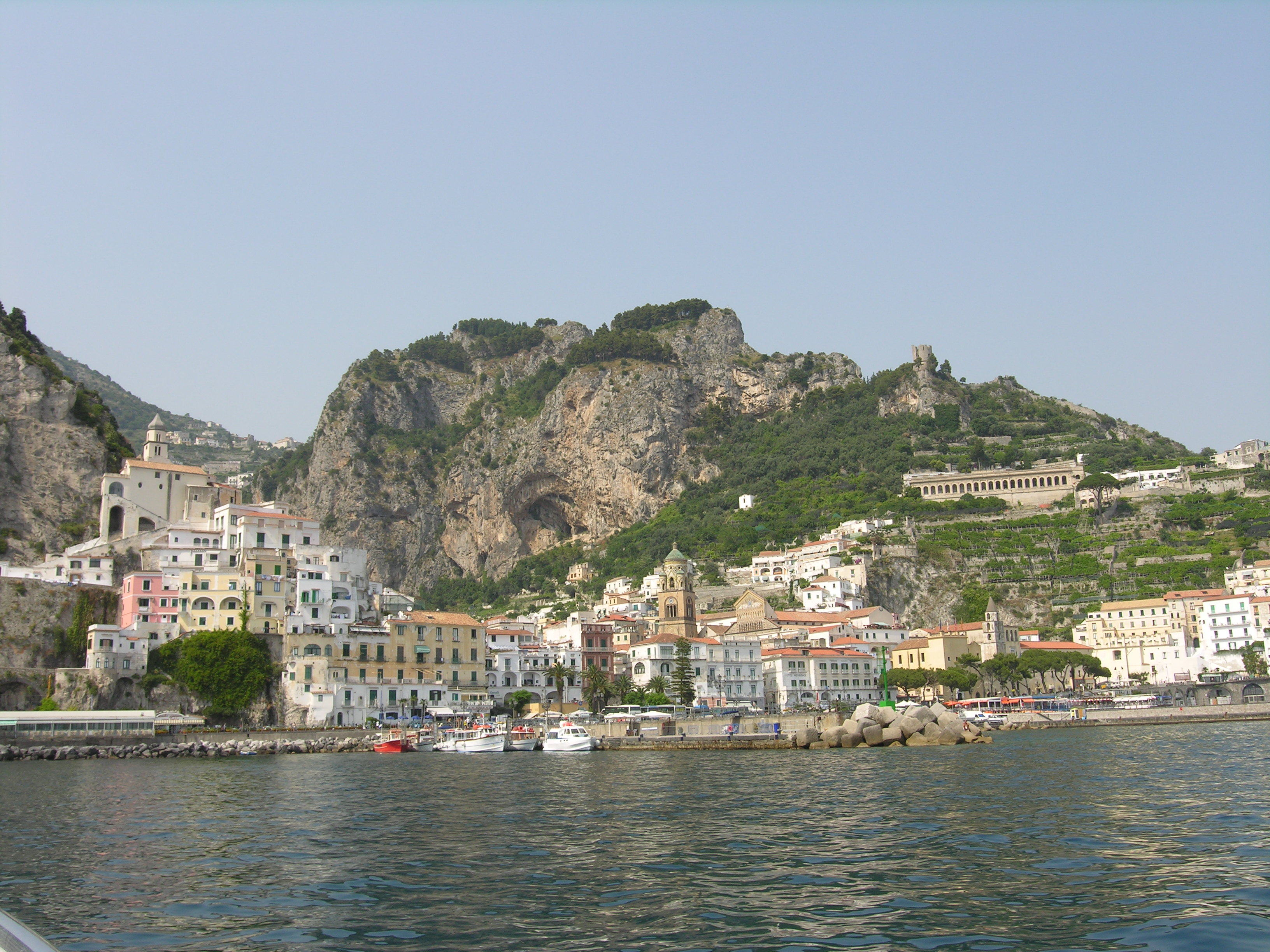 Amalfi, sea view, Italy, June 2006.